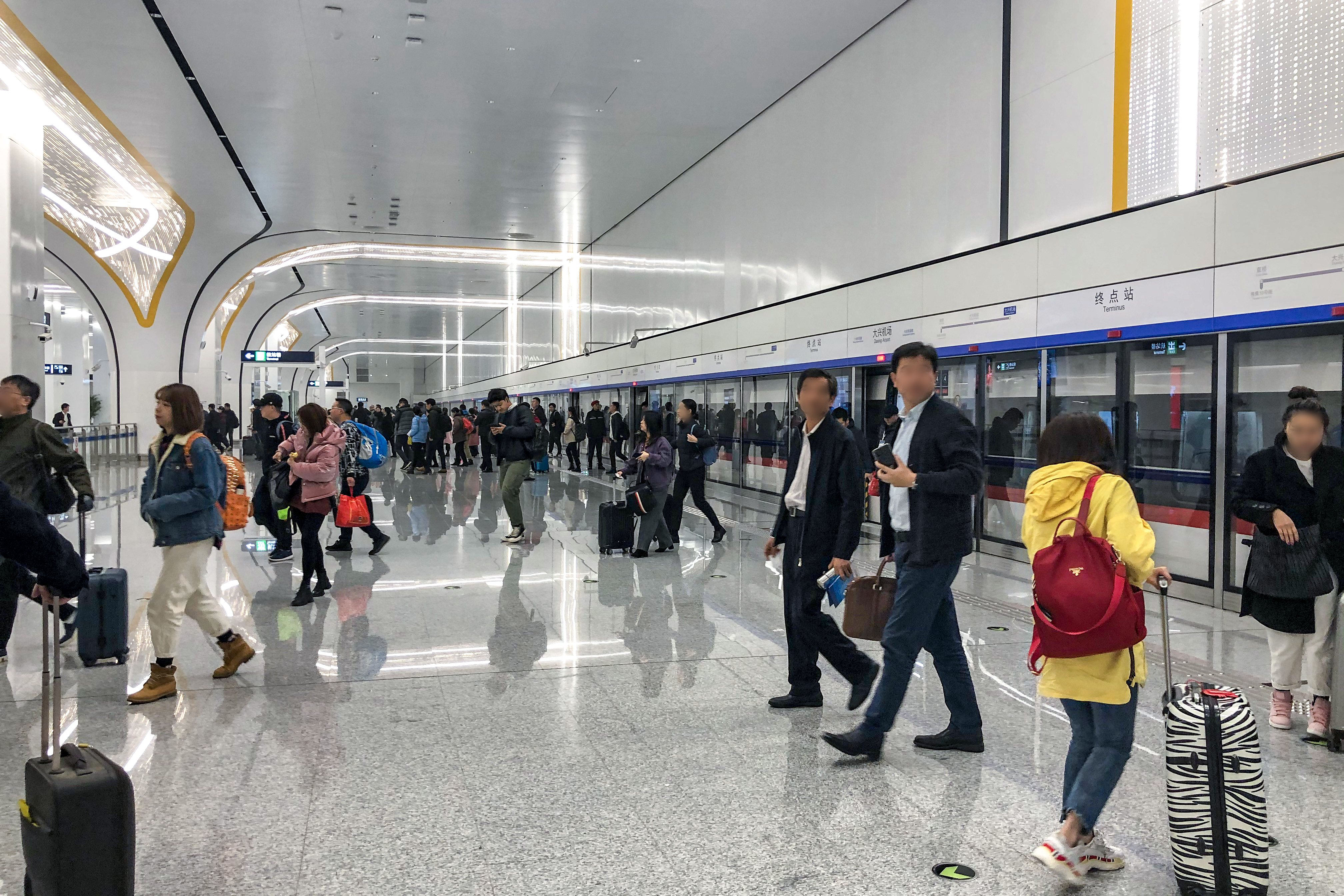 First day of international services at PKX witnessed a swarm.